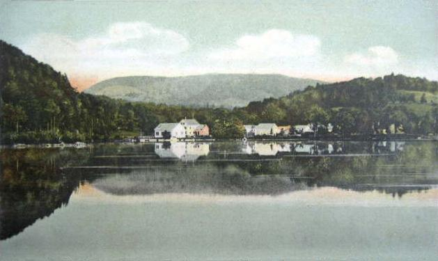 Waterford, Maine from Keoka Lake